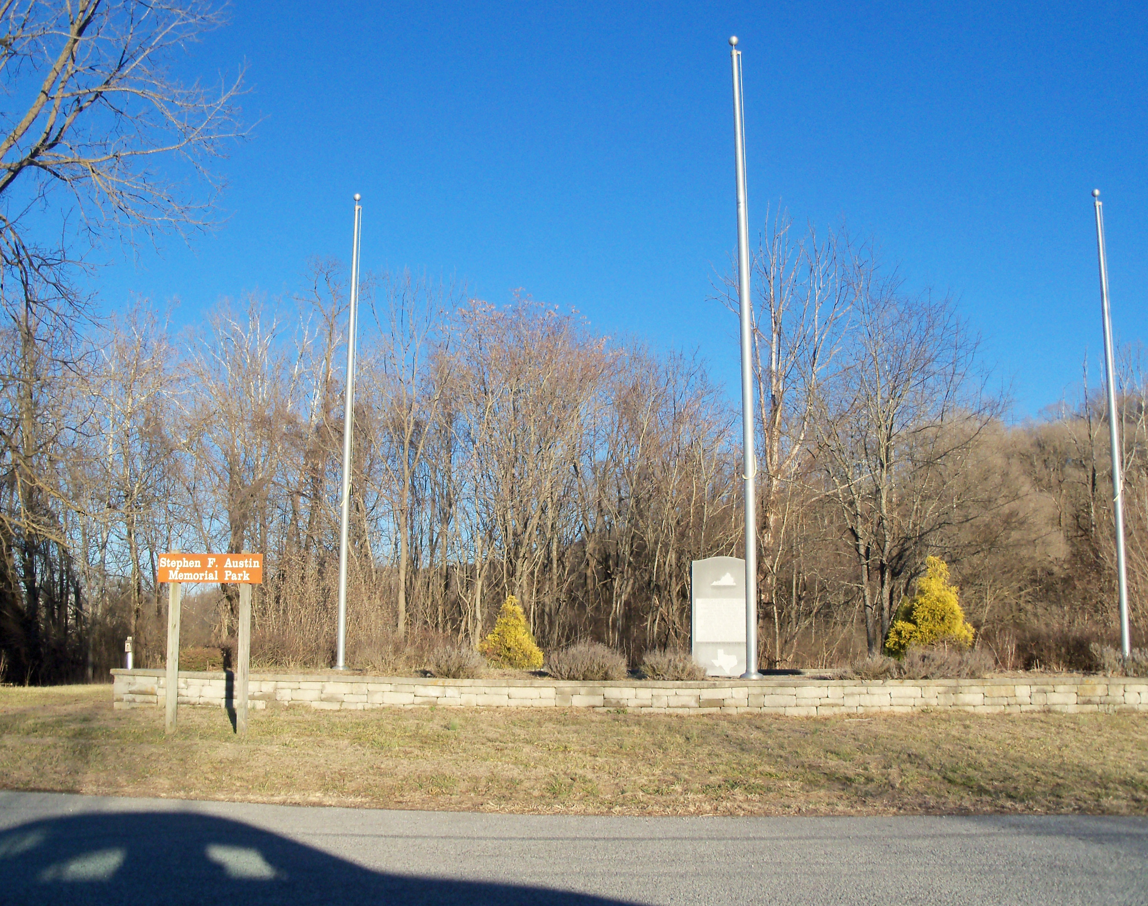 Monument to Stephen Austin